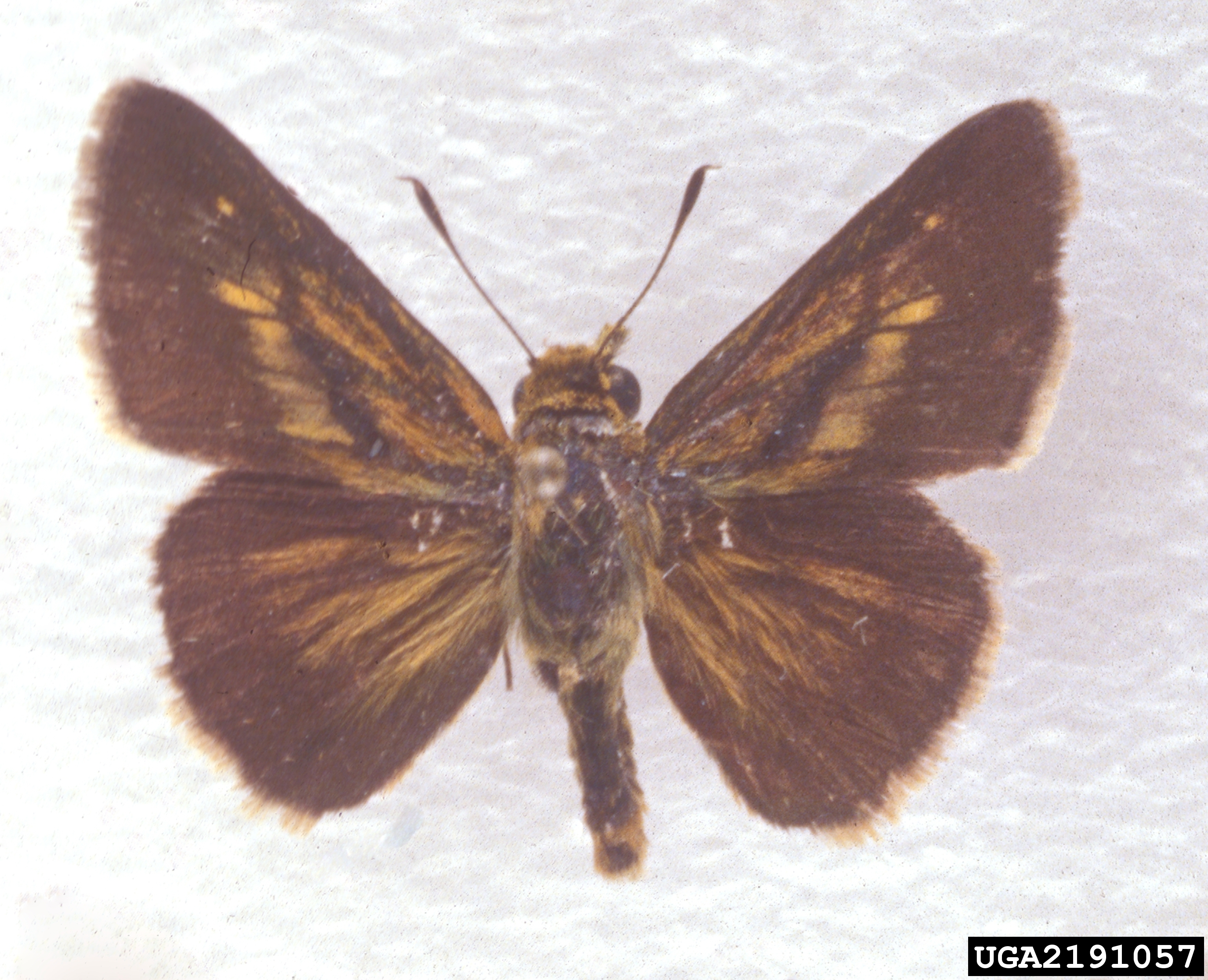 Euphyes dion alabamae. Lowndes County, Mayhew, Mississippi, United States.